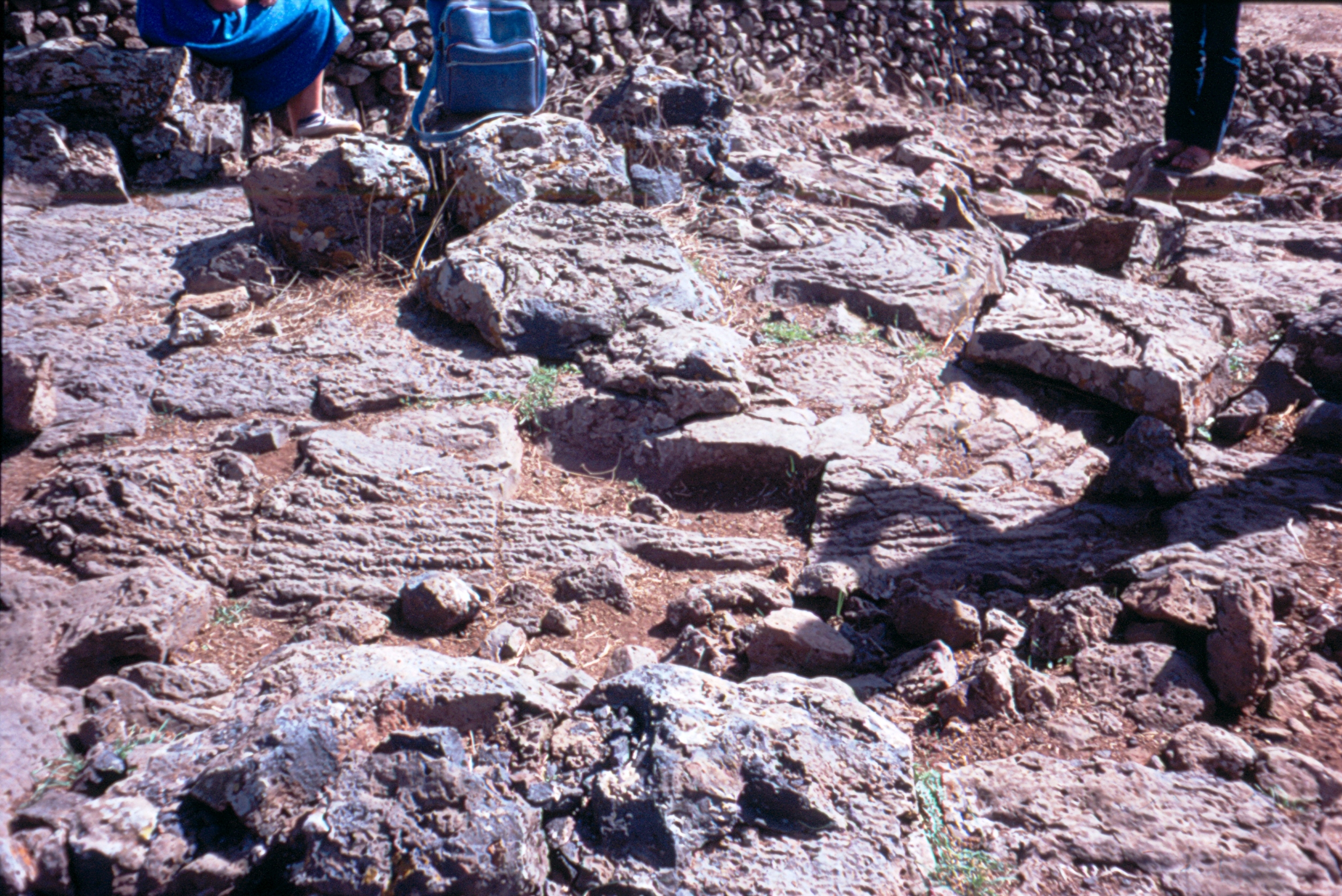 Basalt__flowing_at_Golan